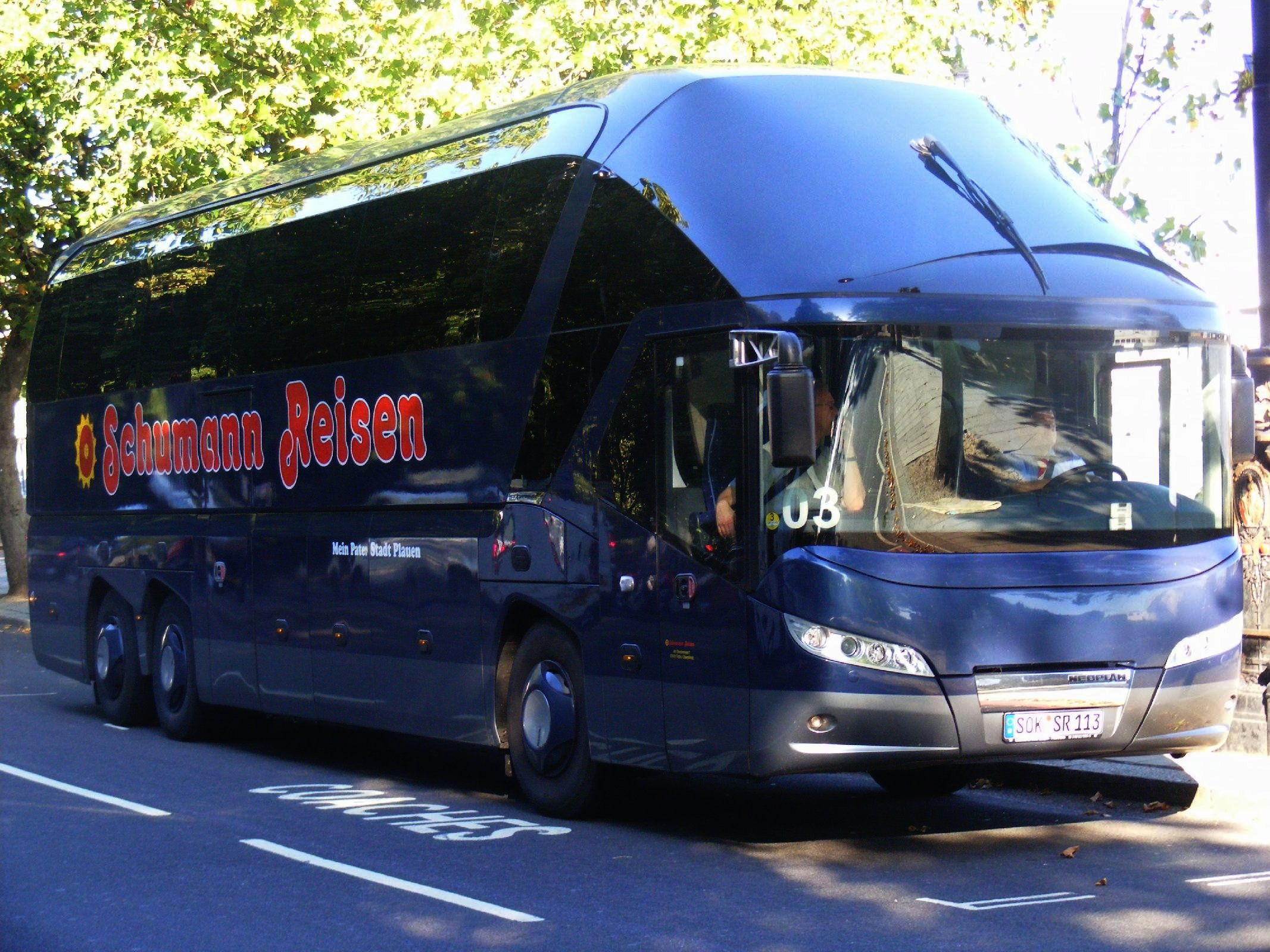 Hiding in the trees in London, this Neoplan style has never really caught on on the UK. This one is another visitor from the former DDR from Triptis, Thueringen . Registration SOK for Saale-Orla Kreis which incorporated the temporary mark of SCZ for Schleiz. The firm was founded in 1990 by Thomas Schumann an is the biggest such concern in Thueringen with 200 employees and 50 vehicles.